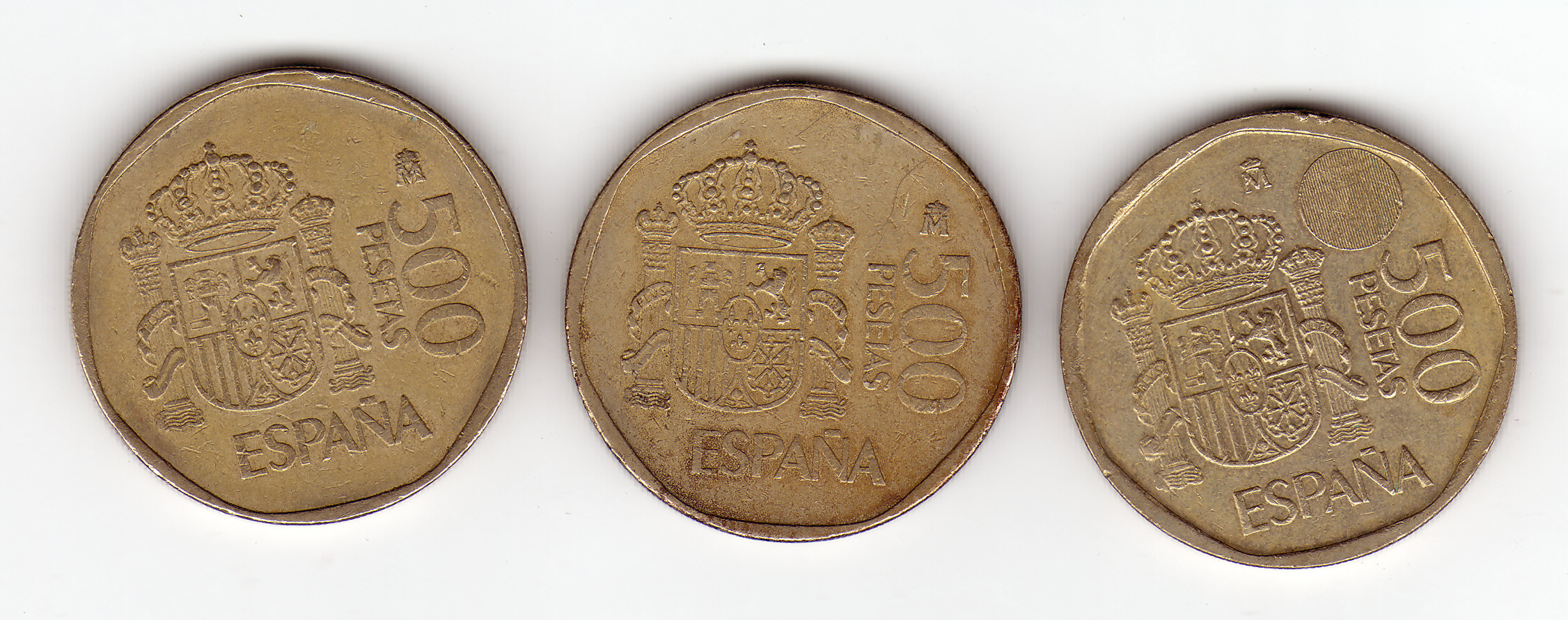 500 pesetas, several years, reverse